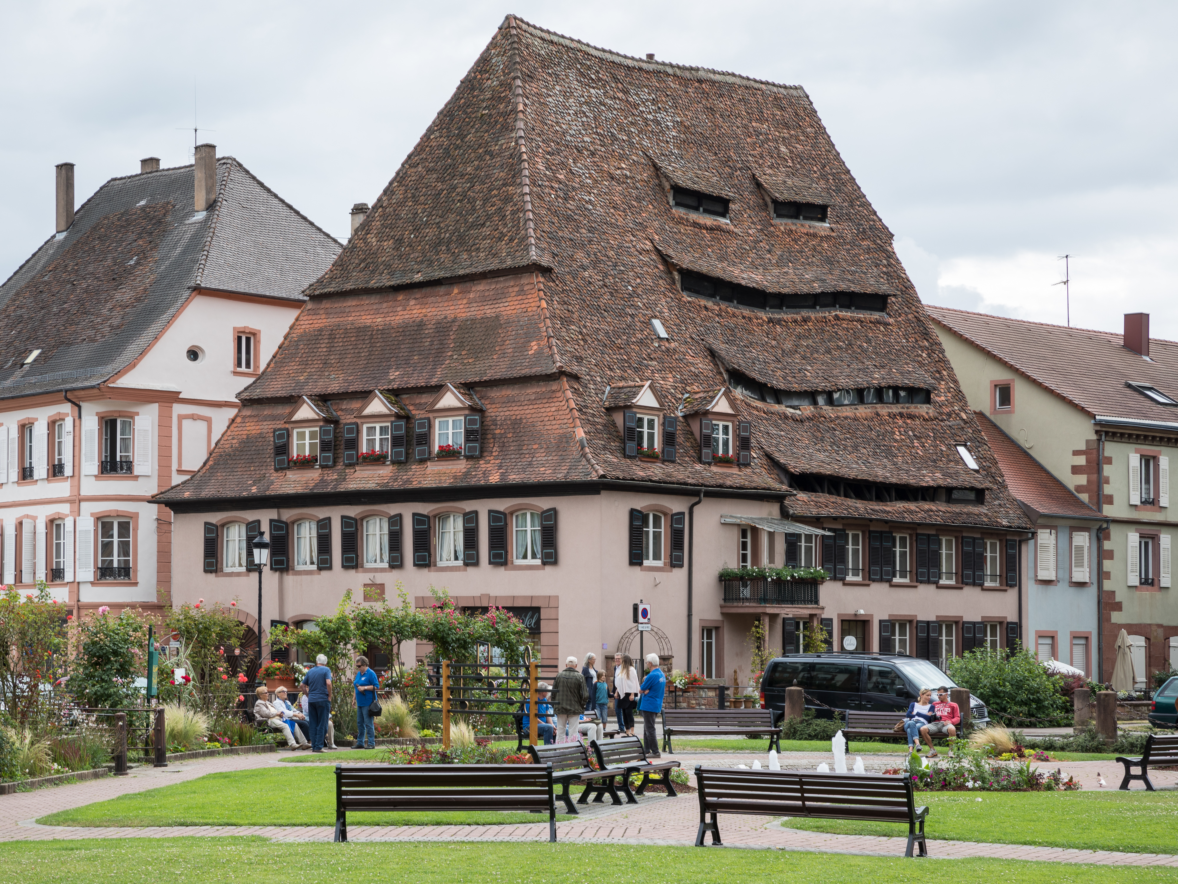 Historic salt store house in Wissembourg, Alsace